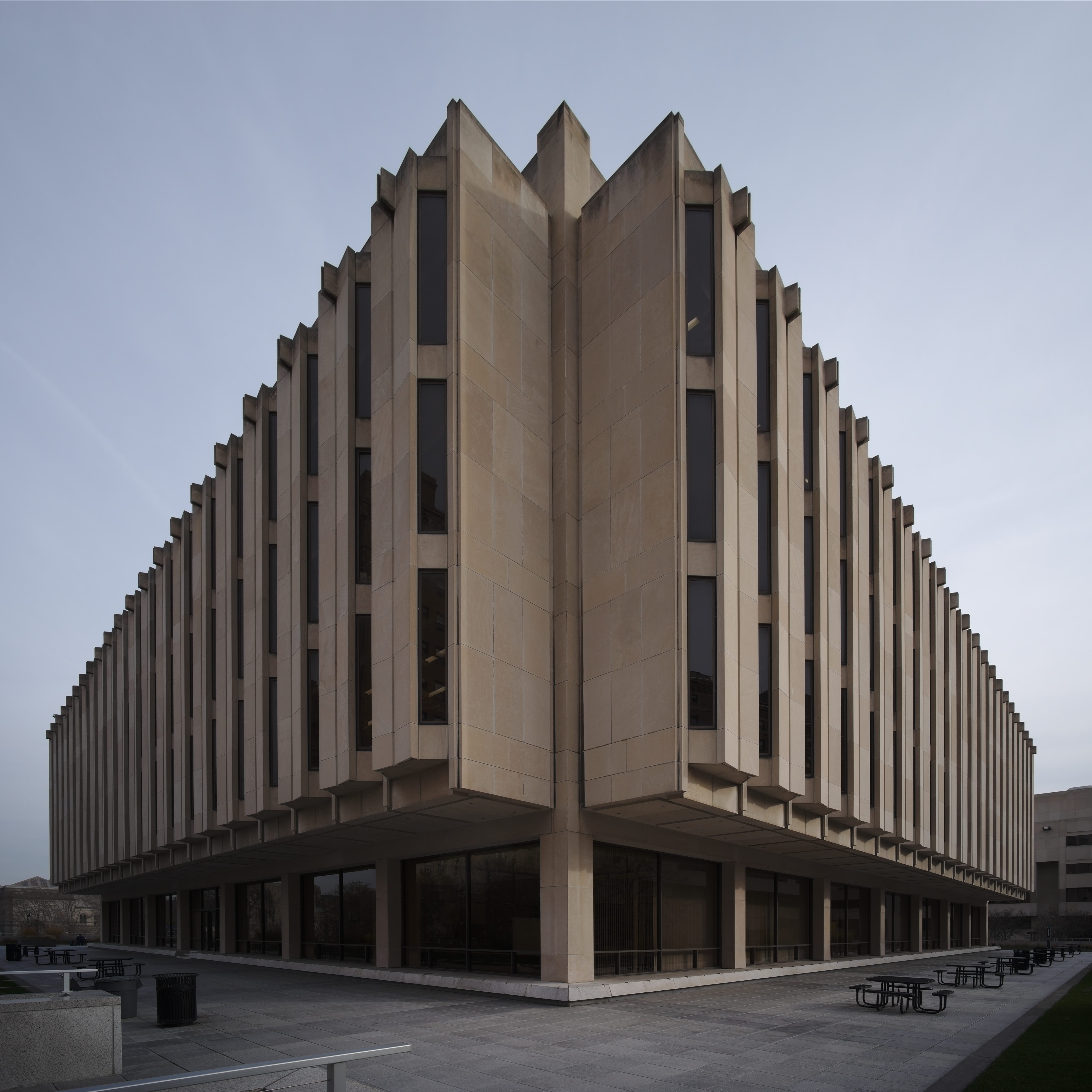 Hillman Library is the largest library and center of administration of the library system of the University of Pittsburgh.